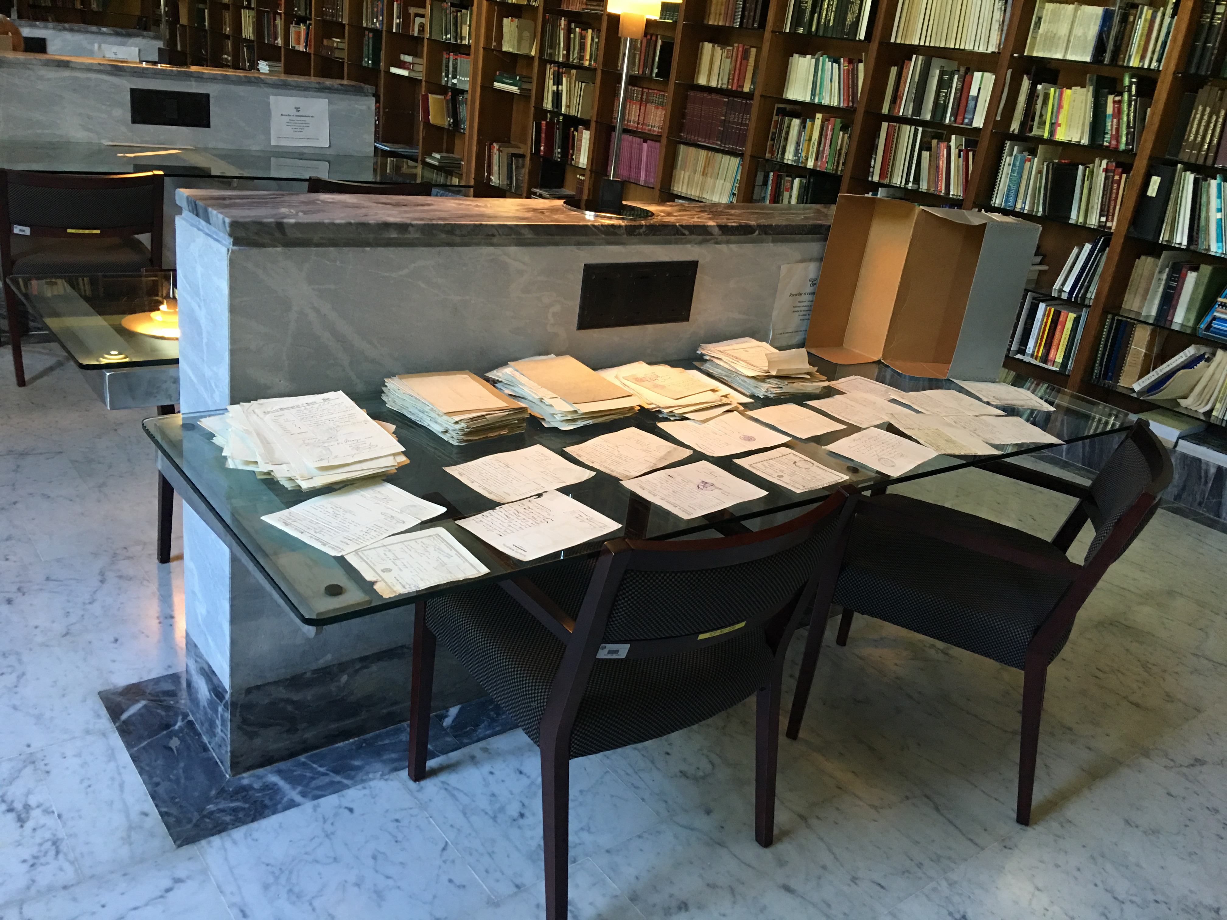 Historical Documents at the Archivo General de Puerto Rico - Instituto de Cultura Puertorriqueña belonging to the Colección de governadores españoles (Spanish Governors Collection)